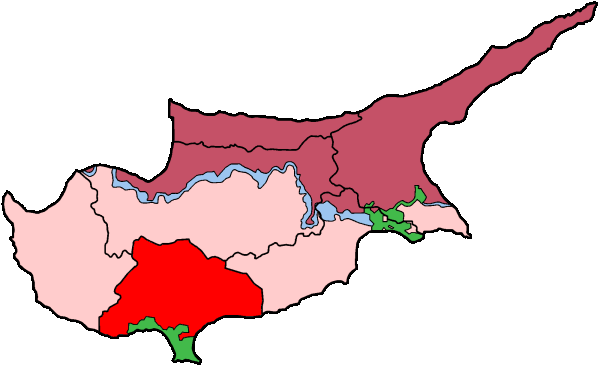 Map of Cyprus showing Limassol district. The green areas are the UK Sovereign Base Areas, the blue area is the UN buffer zone. Areas north of the buffer zone are controlled by the Turkish Republic of Northern Cyprus, areas south are controlled by the Greek Cypriot government.